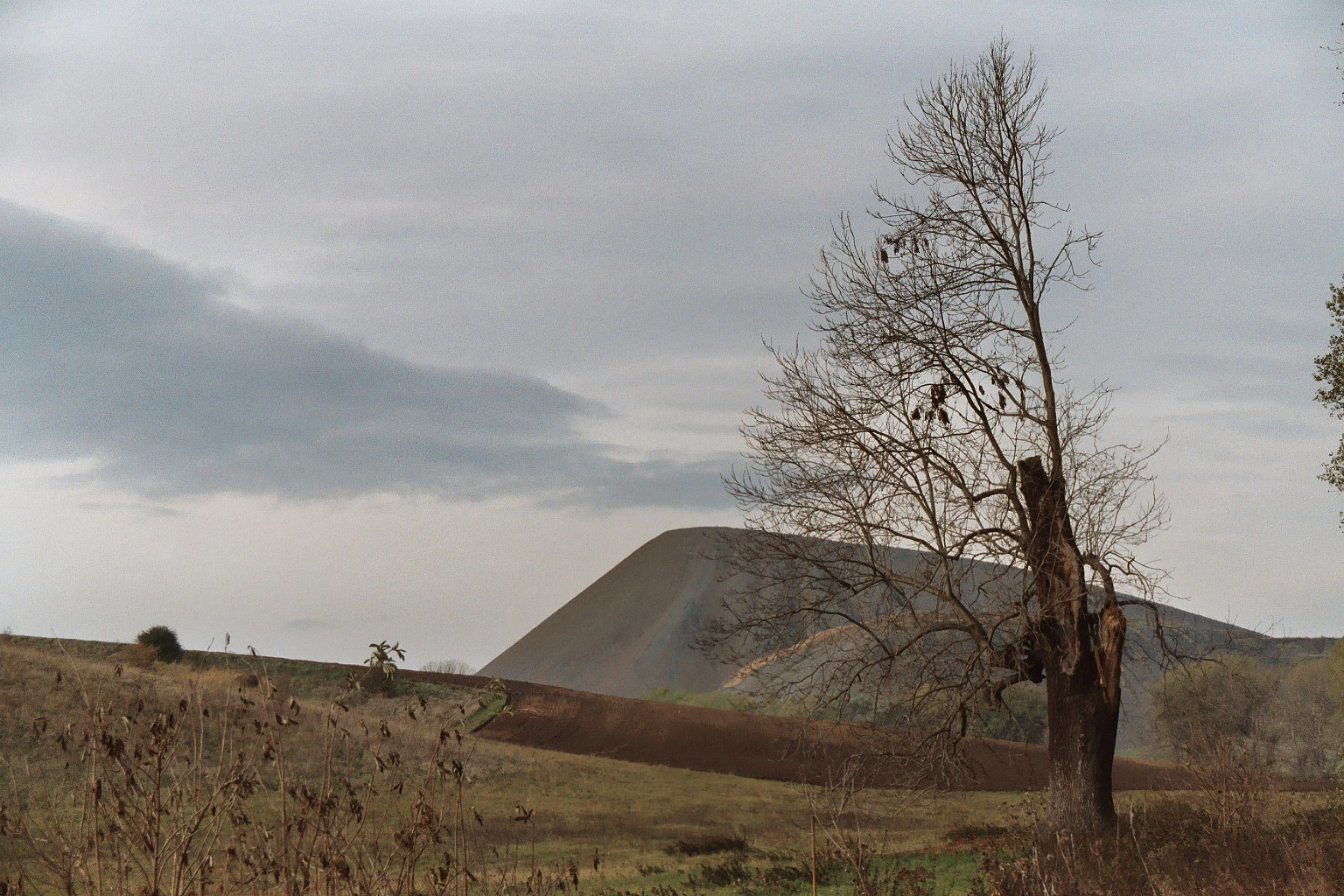 Helmsdorf (Gerbstedt), view to the point cone mine dump of the Otto-Brosowski-Schacht